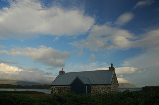 Cragaig Bothy, Isle of Ulva, Inner Hebrides.